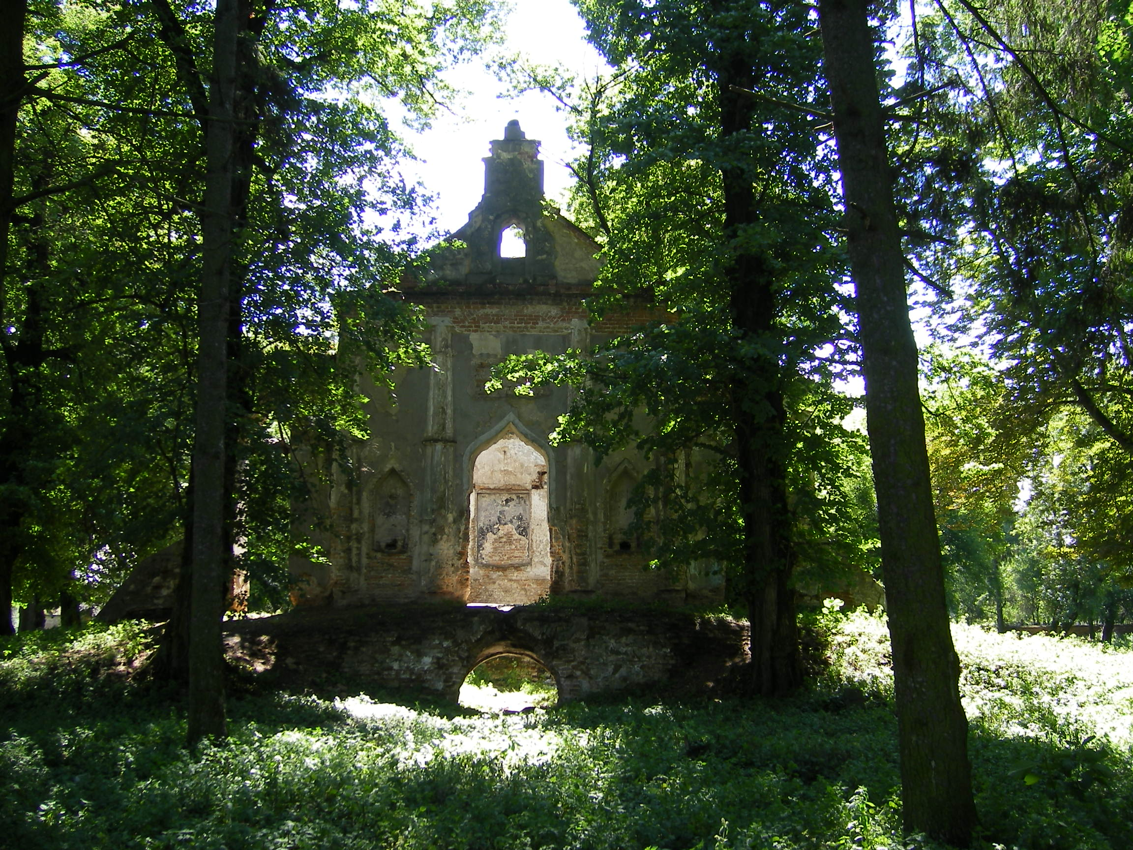 Old church in cemetery, Olyka